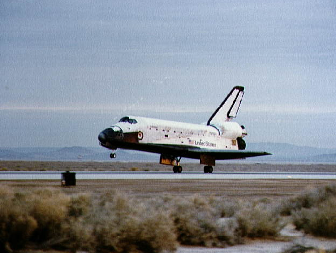 Landing view of the Columbia at the end of the STS-5 mission at Edwards Air Force Base, California on Nov. 16, 1982. The nose landing gear of Columbia nears touchdown on Runway 22 at Edwards AFB in southern California